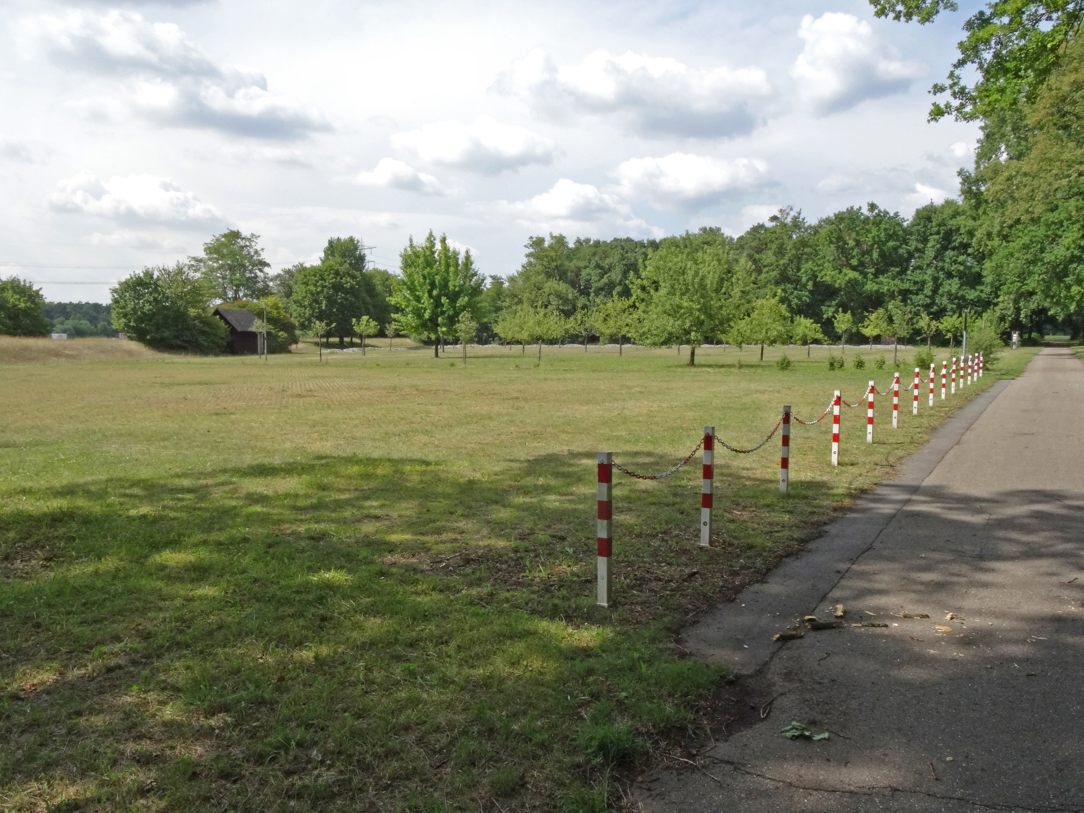 Pfingstbergtunnel, one of the places for rescue, at emergency exit 2